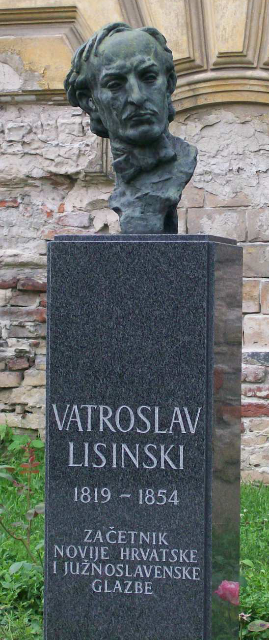 Vatroslav Lisinski, Zagreb